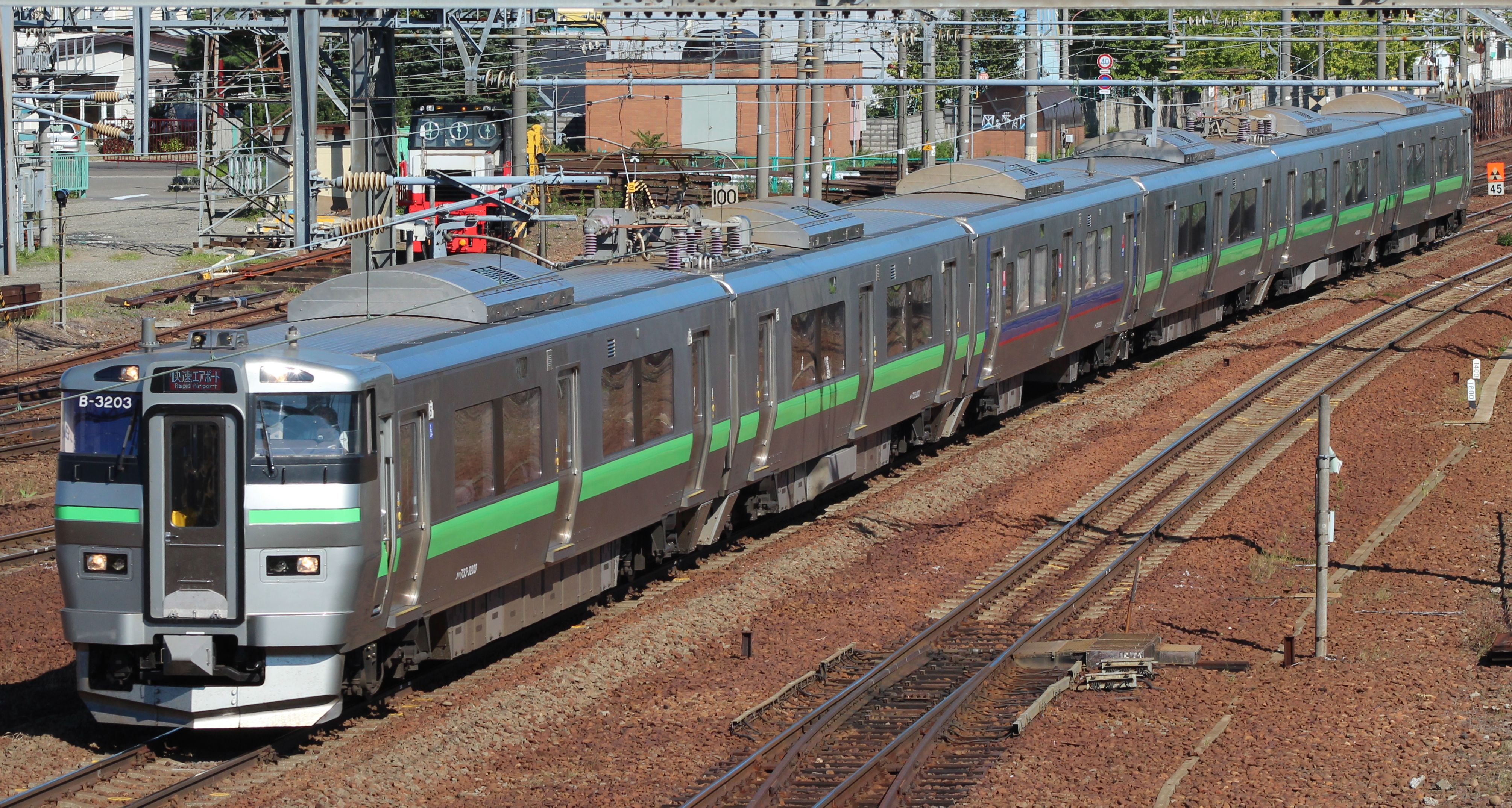 JR Hokkaido 733-3000 series 6-car EMU set B-3103/3203 on an Airport rapid service